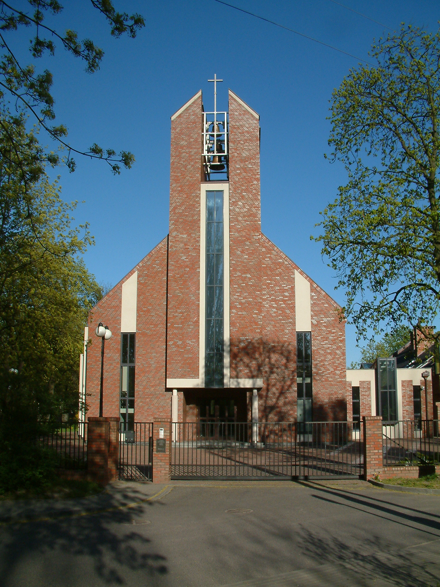 Evangelical-Augsburg Church of Lord's Grace in Poznań